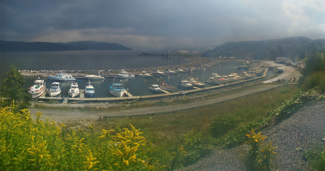 Petries near Mount Moriah, on the southern shore of the Humber Arm, Western Newfoundland, Canada. Morning fog over the marina.